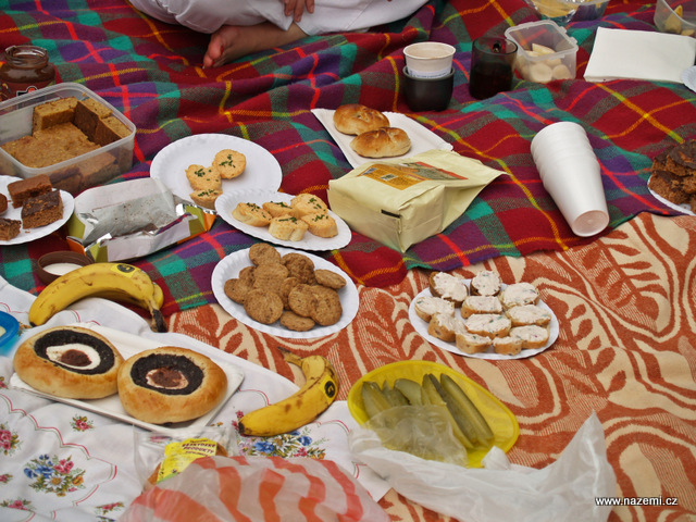 Fair Trade Breakfast